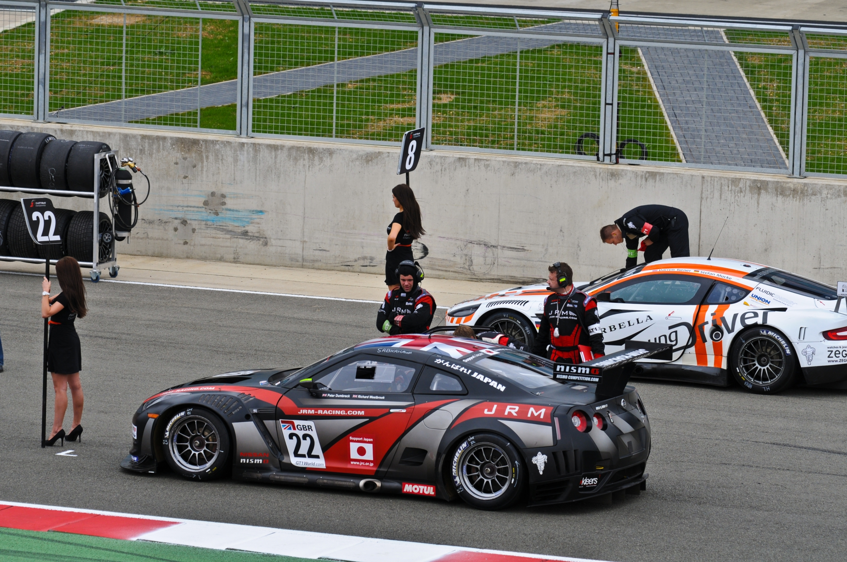 2011 FIA GT1 Silverstone round